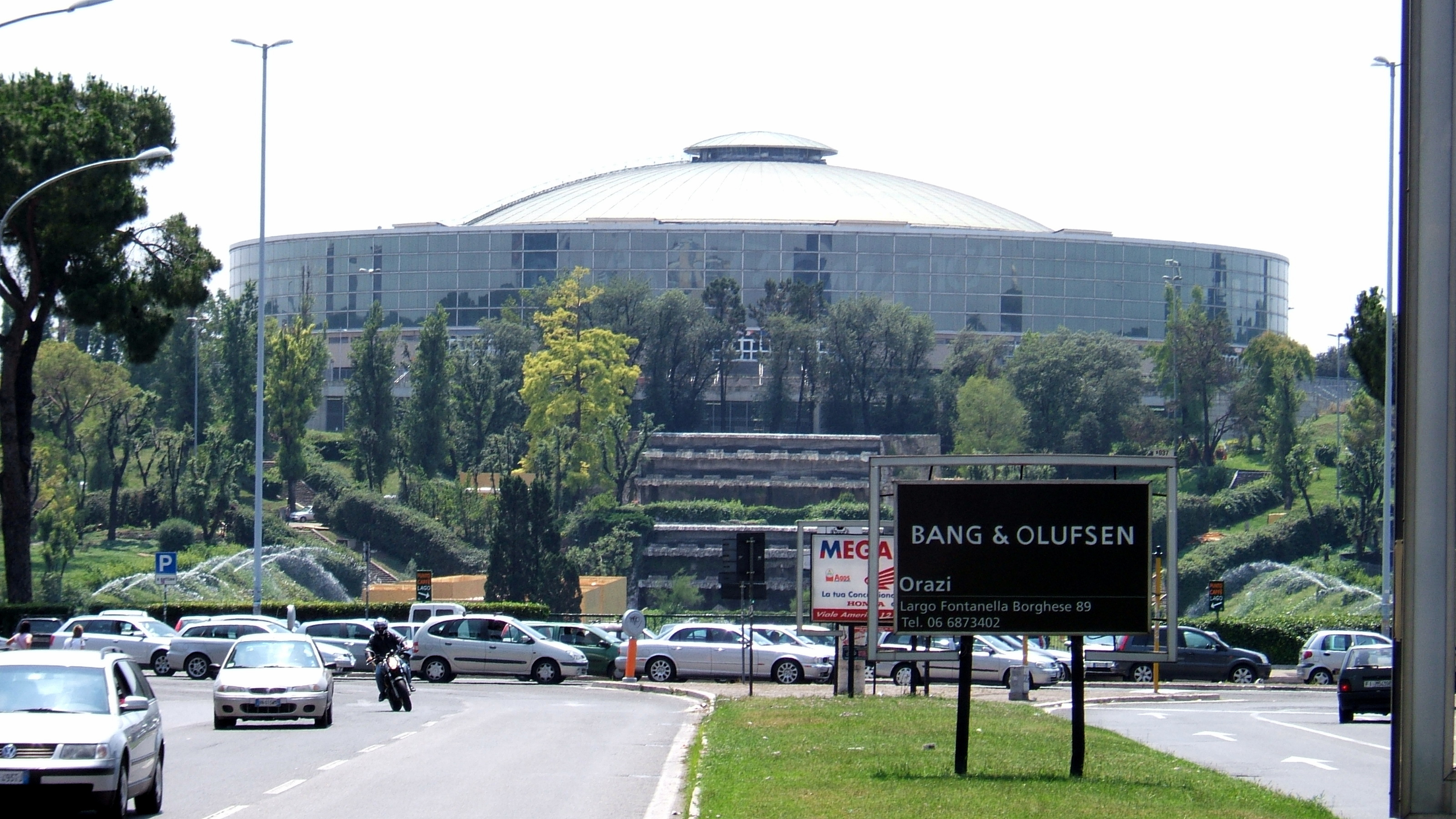 2007-06-11 in Rome.